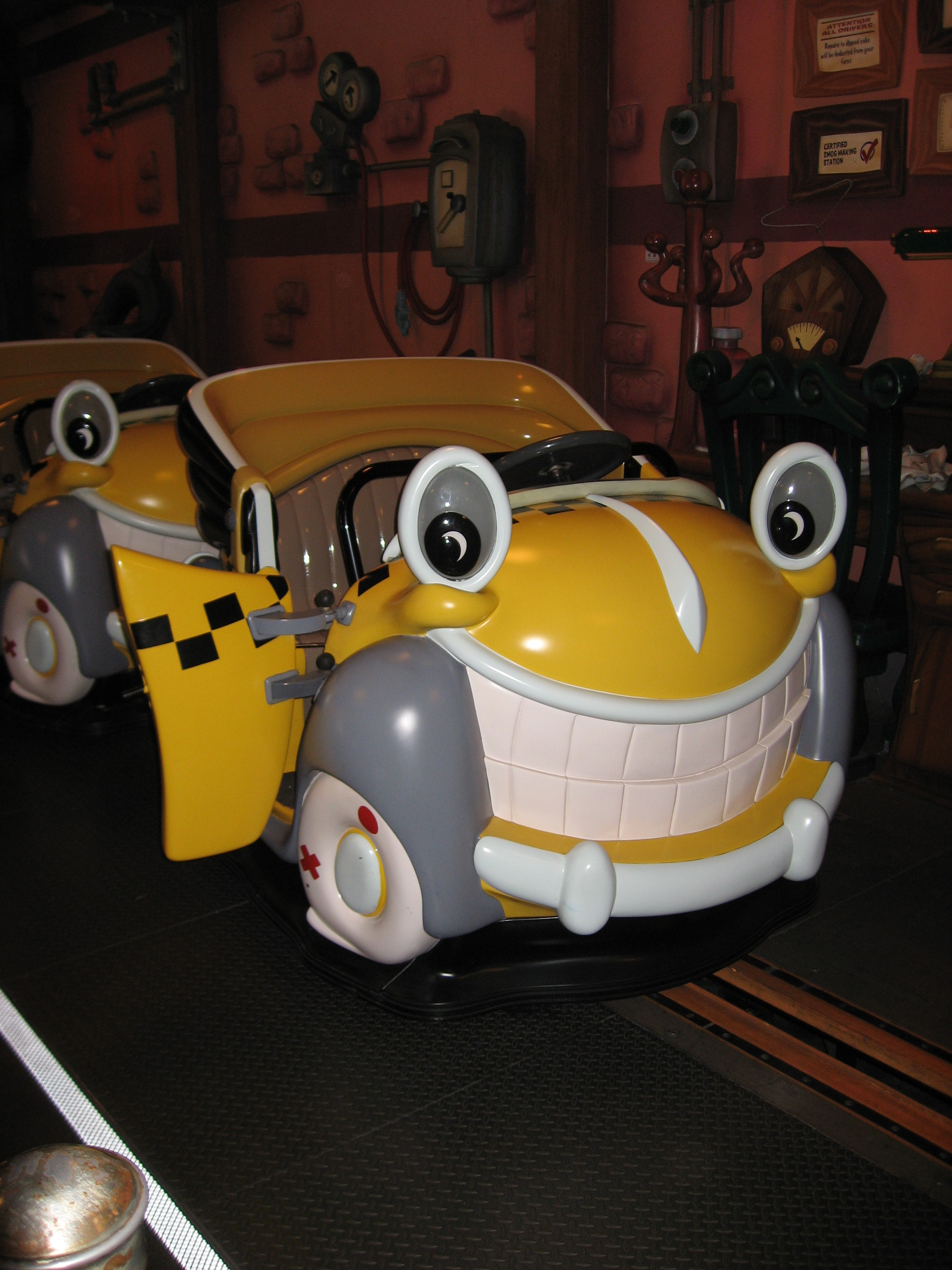 Lenny the Cab from Roger Rabbit's Car Toon Spin at Disneyland.